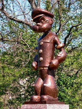 Popeye statue - Chester, IL